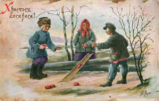 Old-Russian-Easter-Postcard.